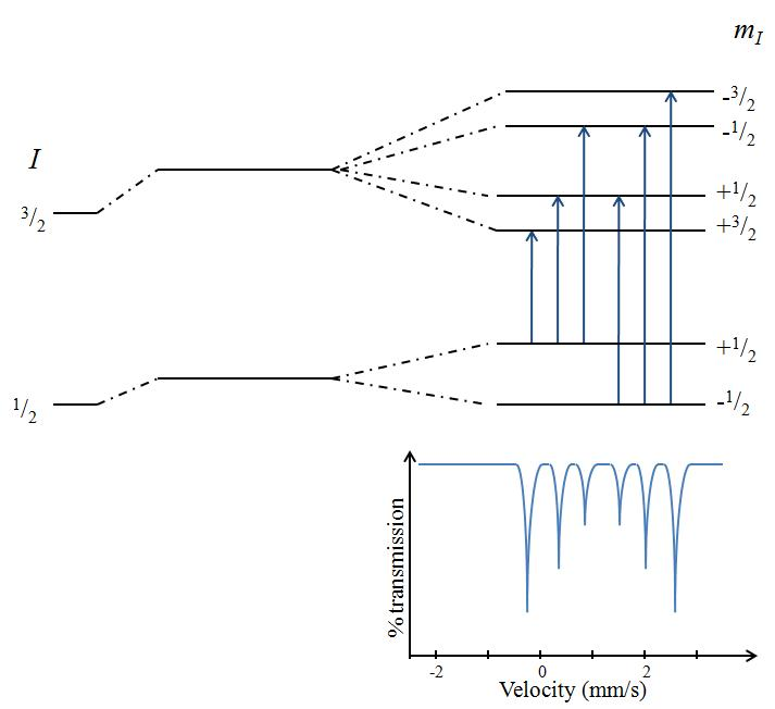 Magnetic (hyperfine) splitting of the nuclear energy levels and the corresponding mössbauer spectrum